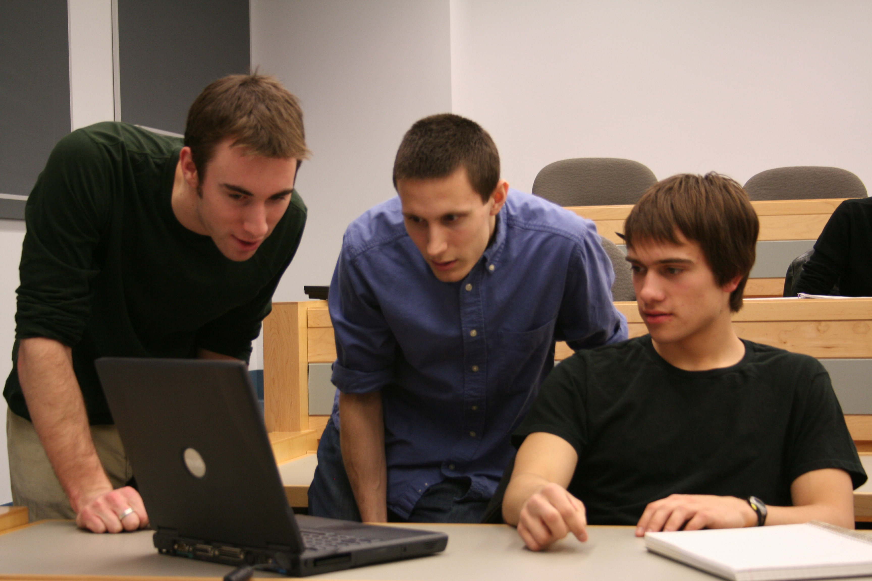 Production shot from Yellow Lights. Visit